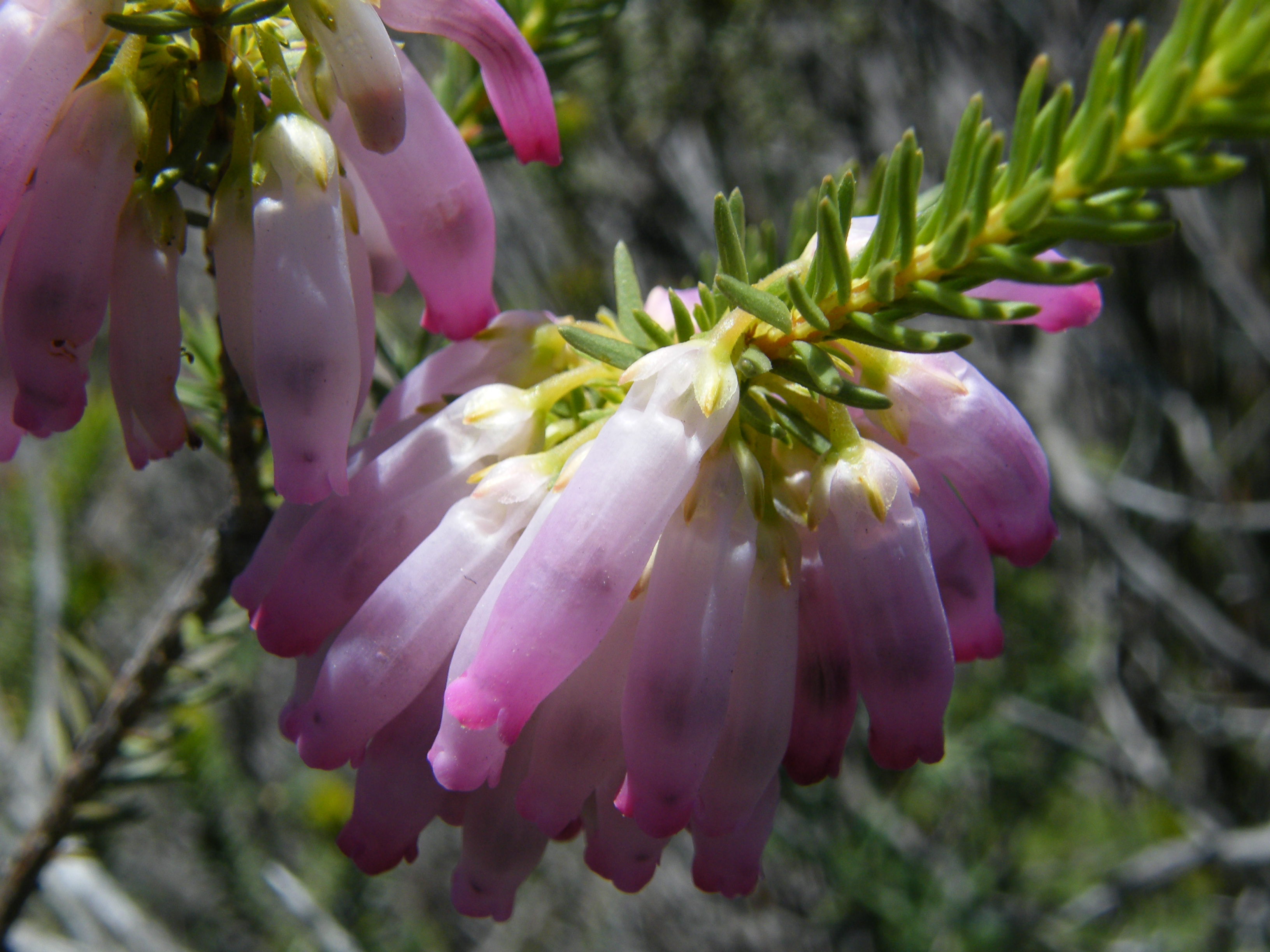 Ninepin Heath